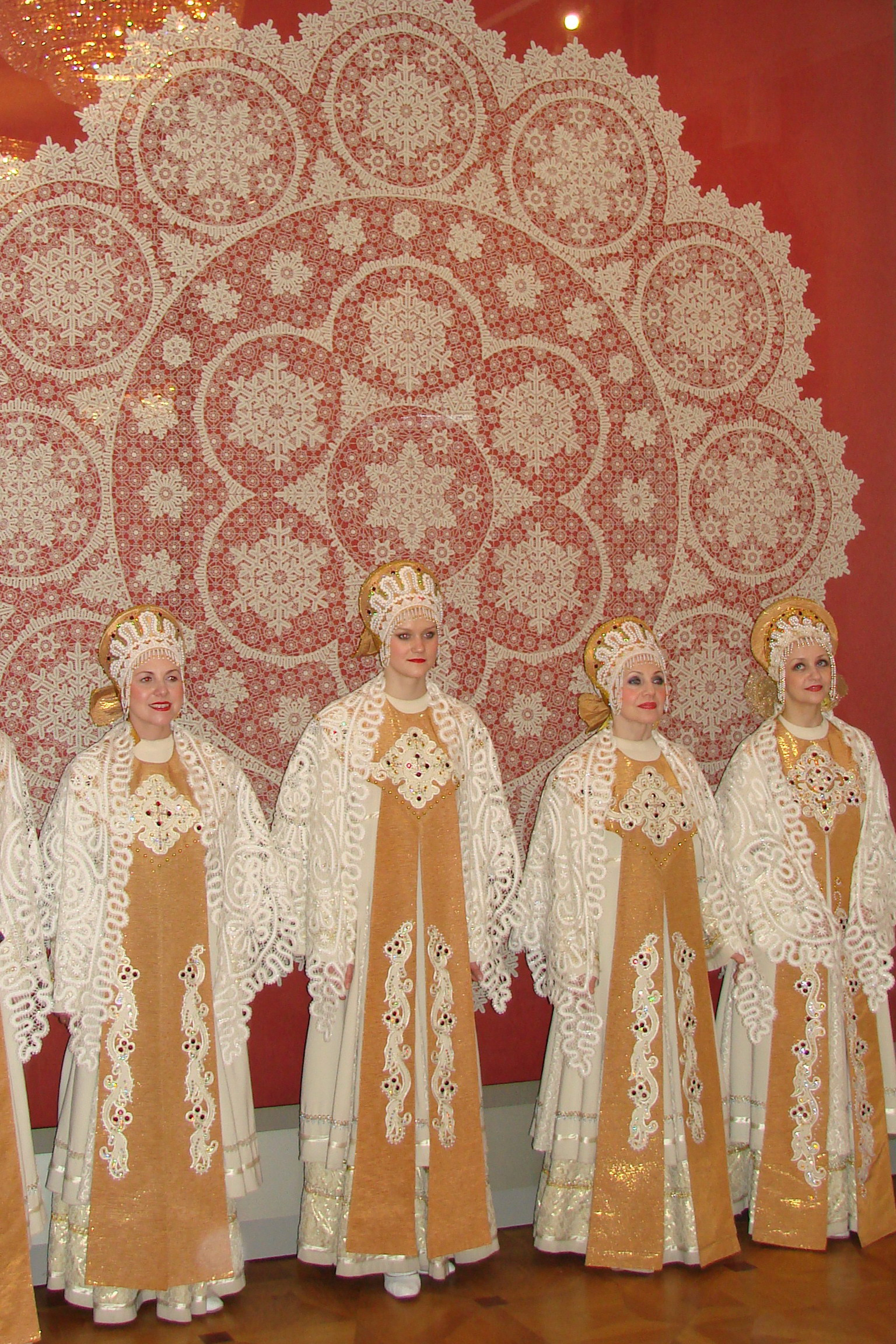 Russia, Vologda, Museum of lace